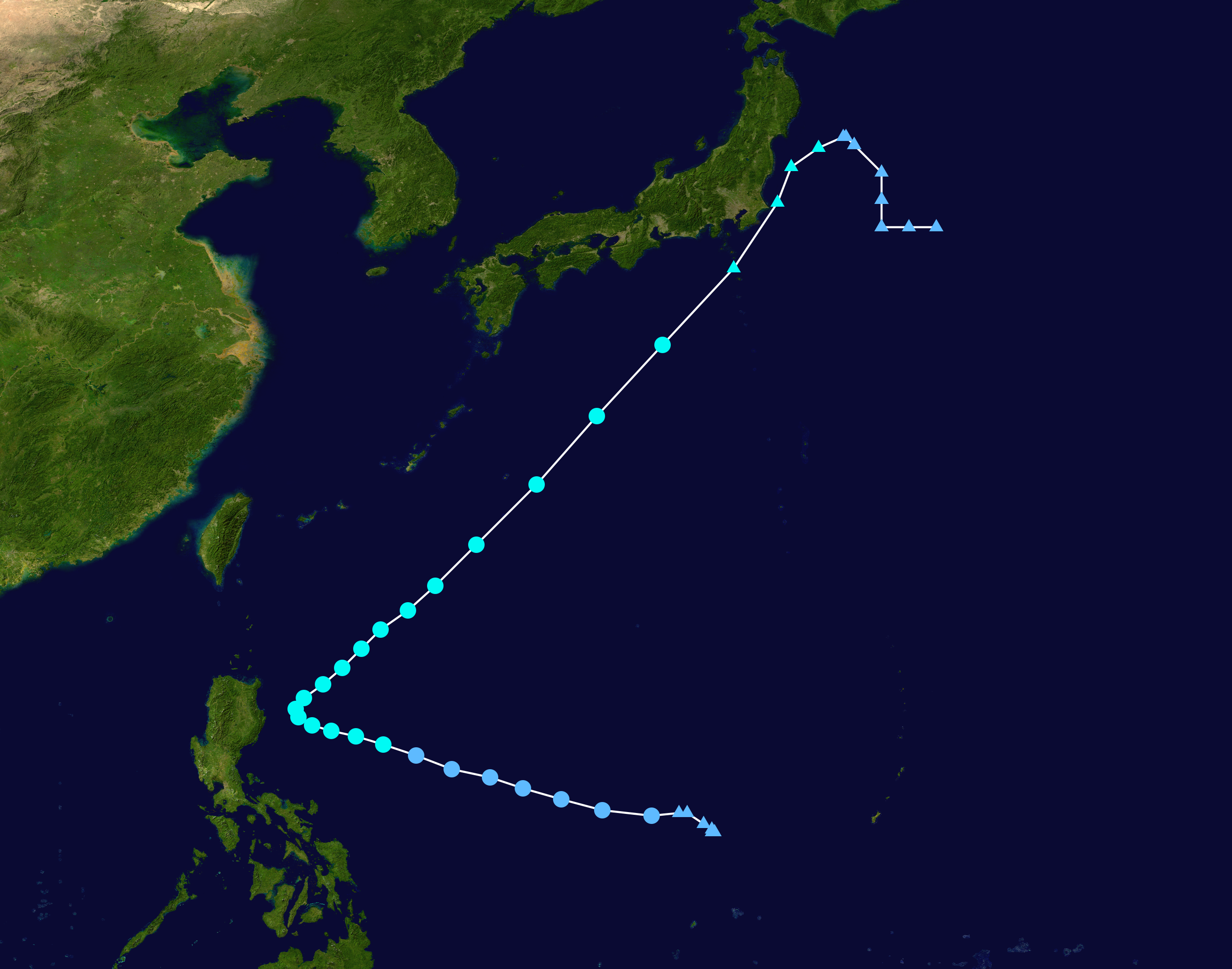 Tropical Storm Sarah 1986 track. Uses the color scheme from the Saffir-Simpson Hurricane Scale.